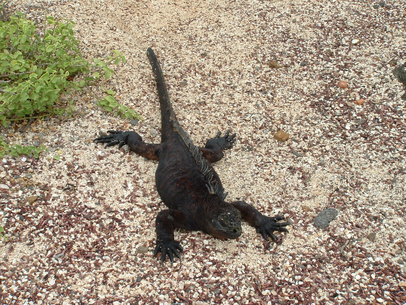 Iguana Marina de Galápagos